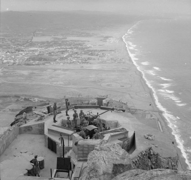 Princess Royal's Battery armed with a 40mm Bofors anti-aircraft gun, taken from the top of the Rock of Gibraltar. 17 November 1941.